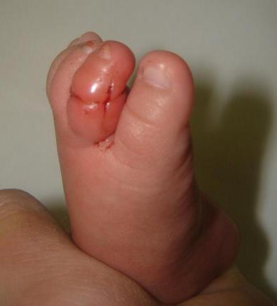 Photo taken by me. Not identifiable as an individual person.